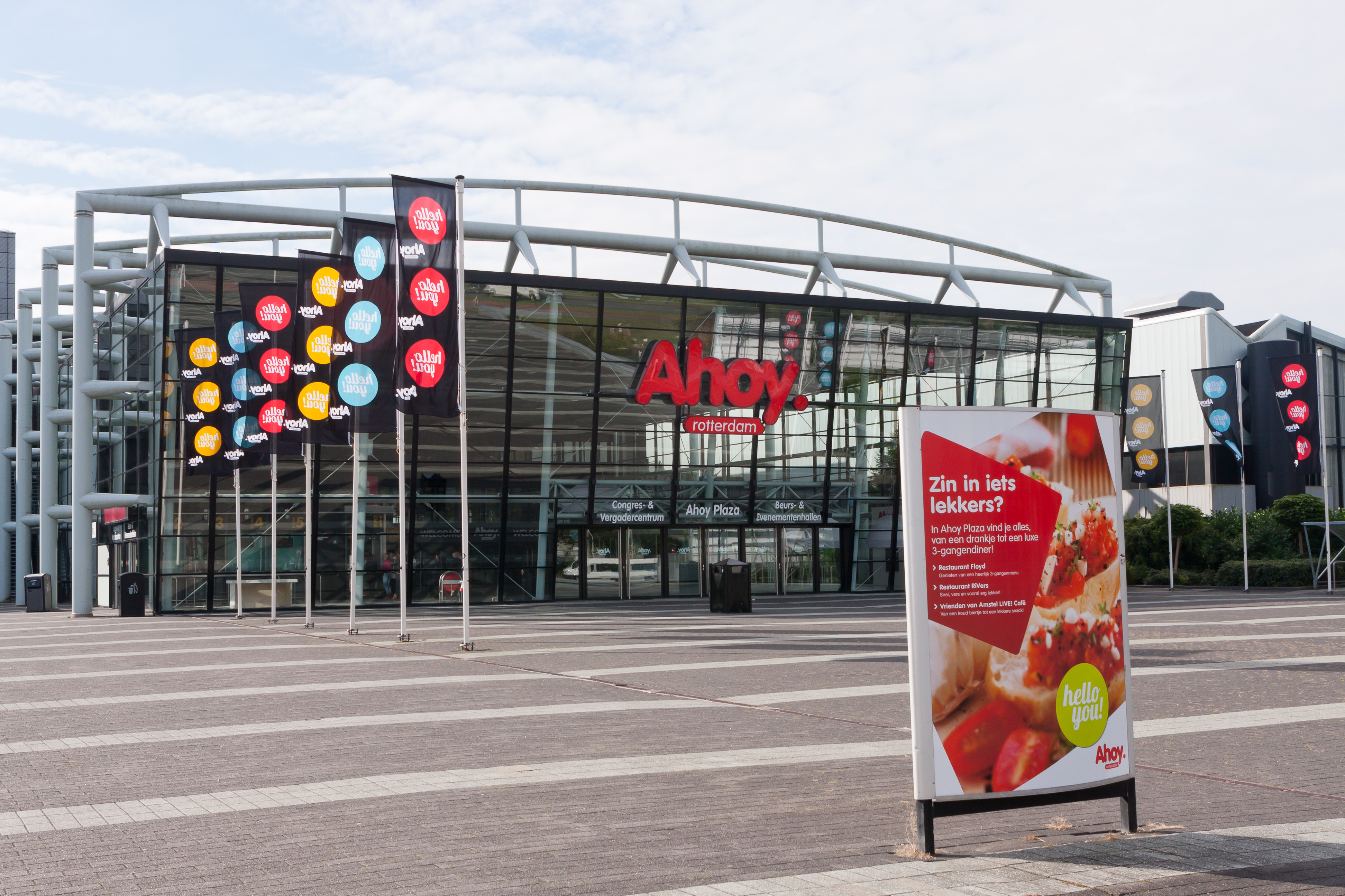 Ahoy Rotterdam